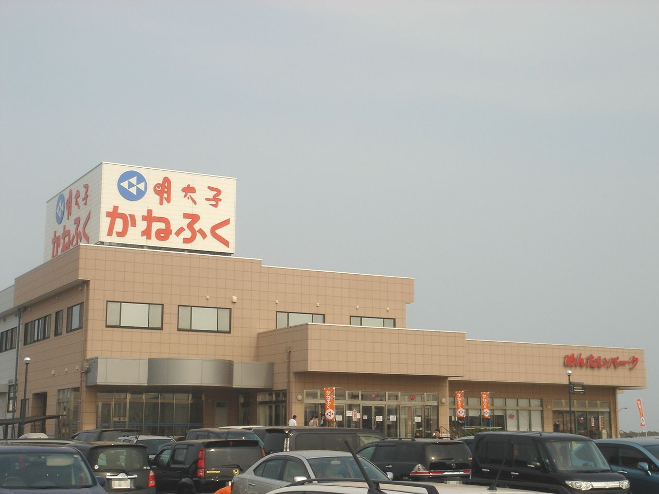 Kanefuku Mentai Park